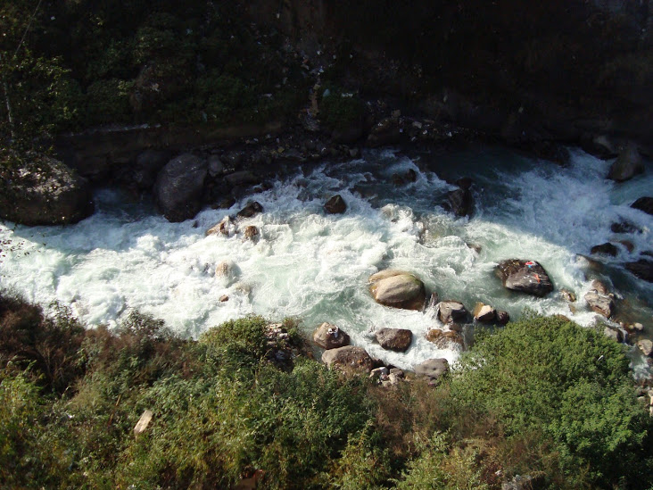 नदीको प्राकृतिक मुहान